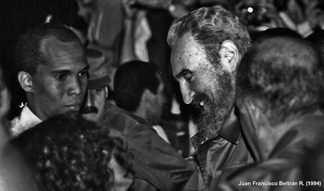 Fidel Castro Ruz. La Habana, Cuba, november 1994.